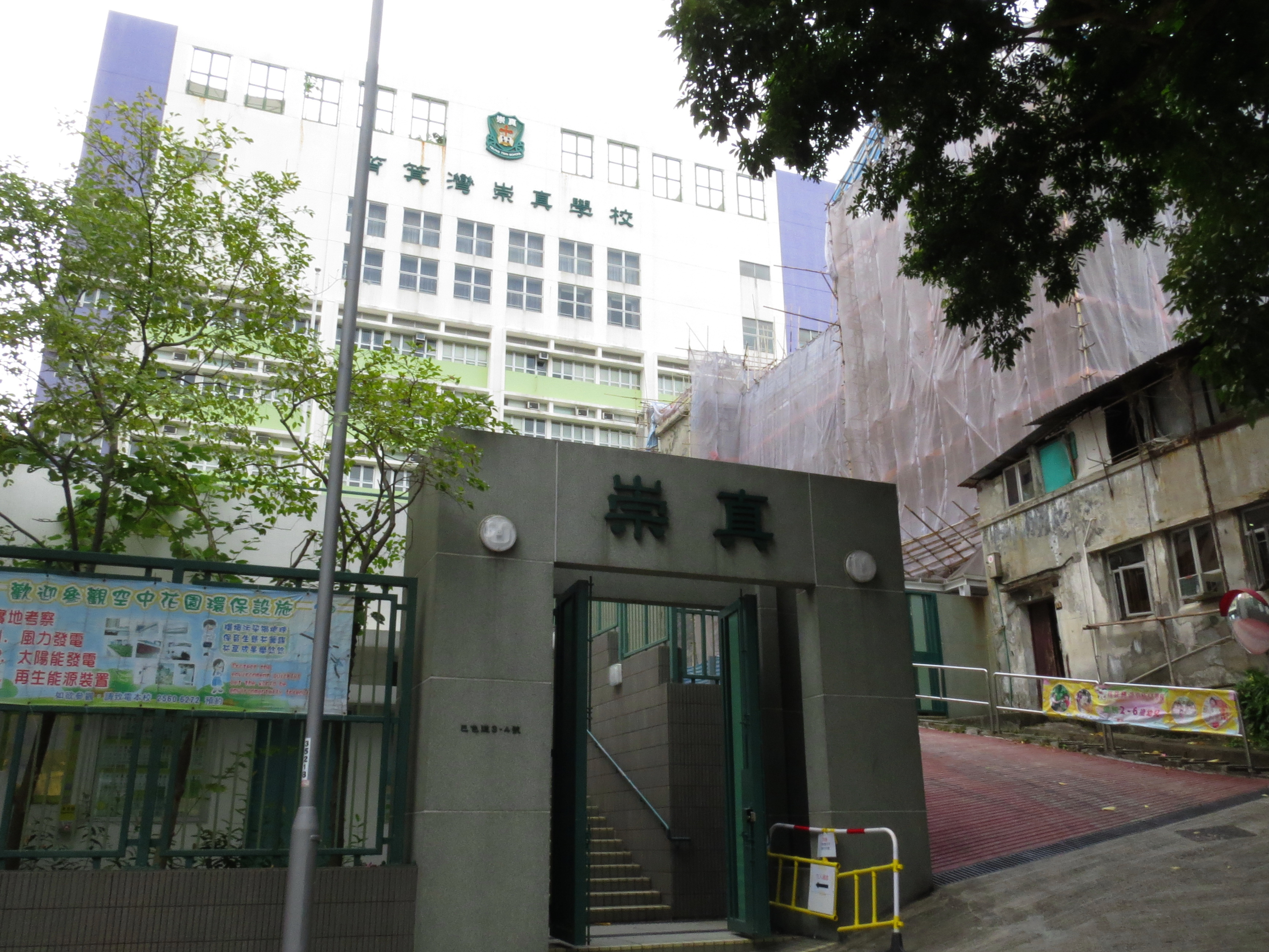 Shau Kei Wan Tsung Tsin School, Hong Kong.